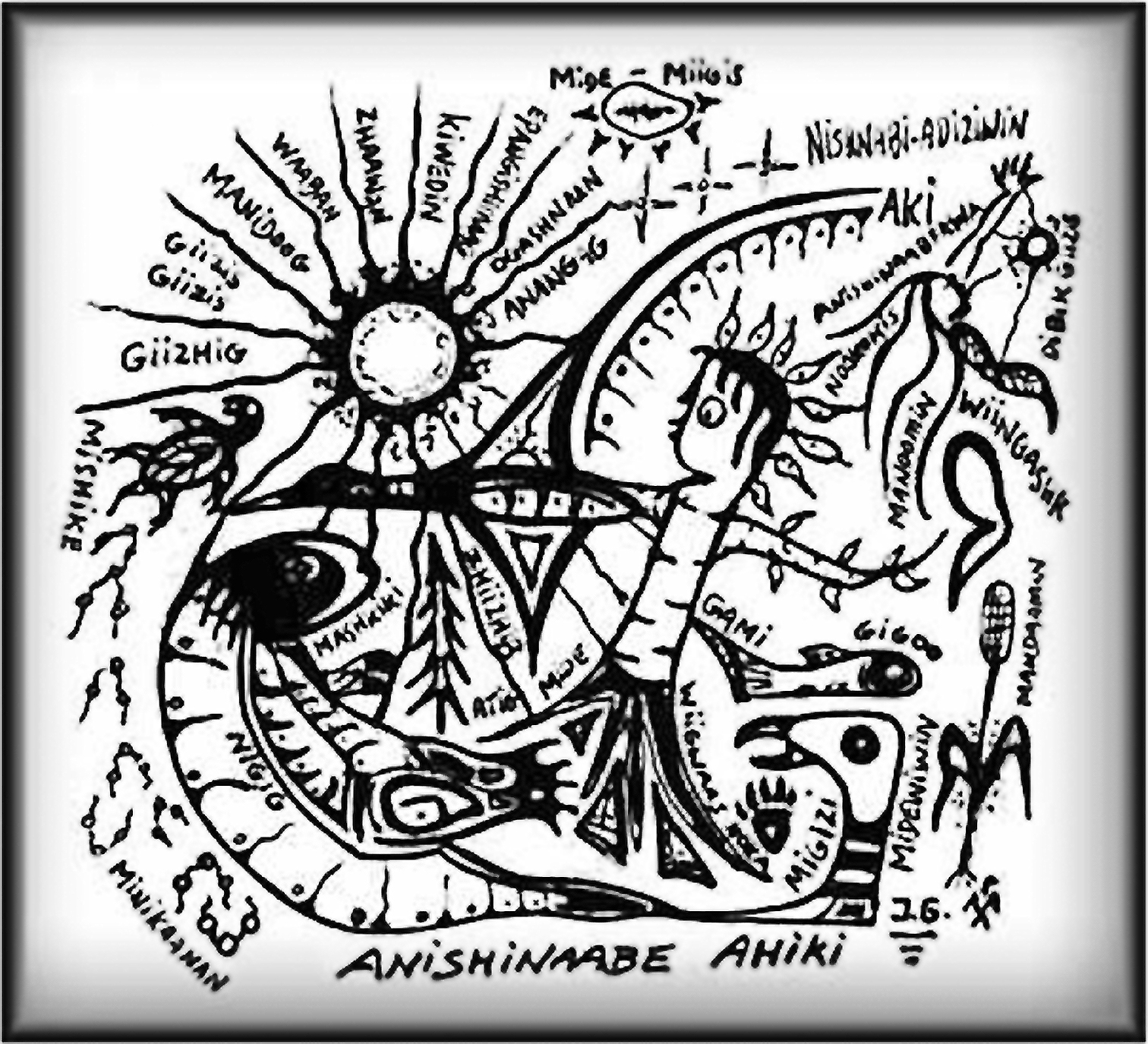 The magic universe of the Anishinaabeg